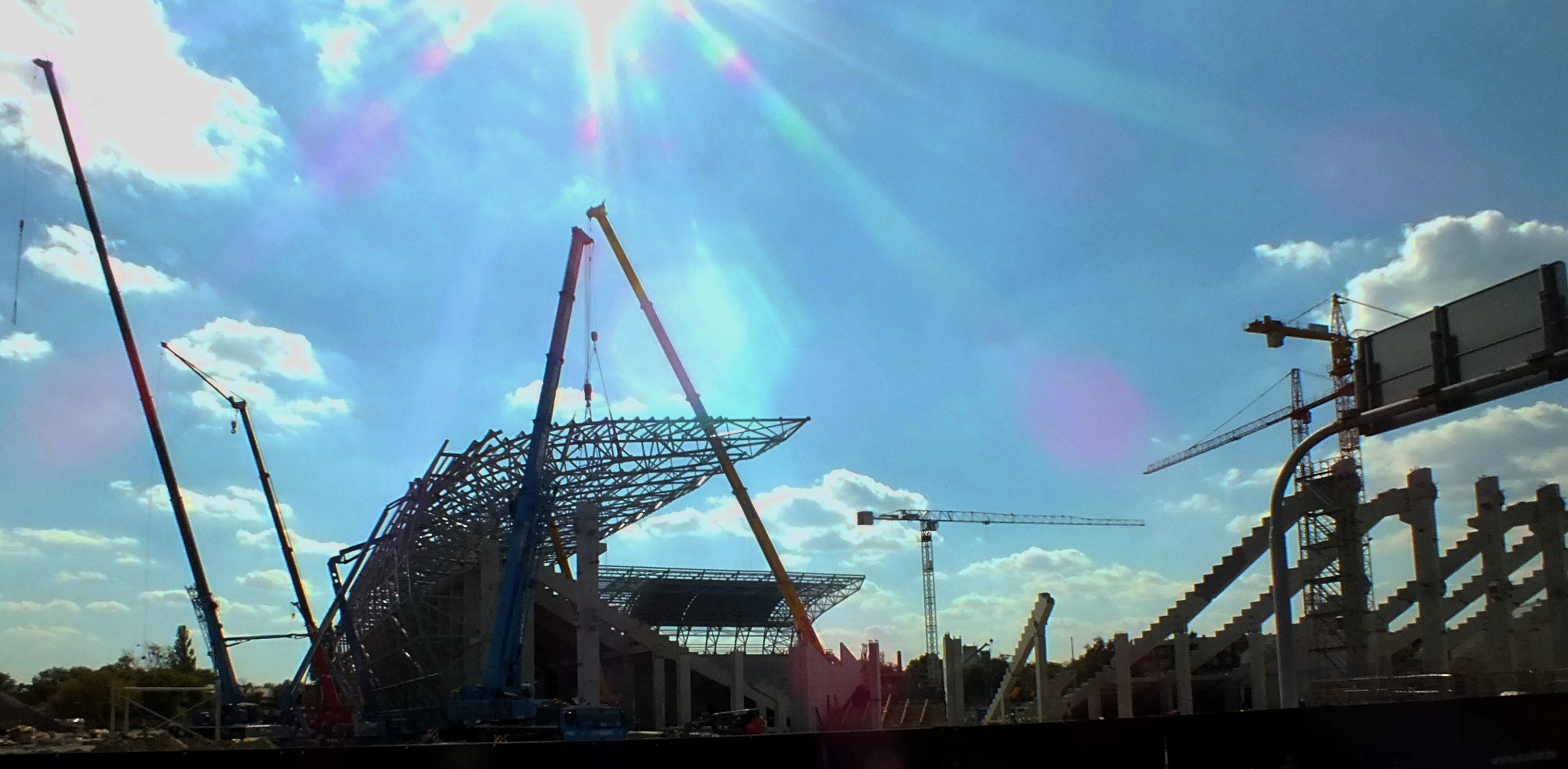 Construction of the new Albert Florian Stadion, 2013